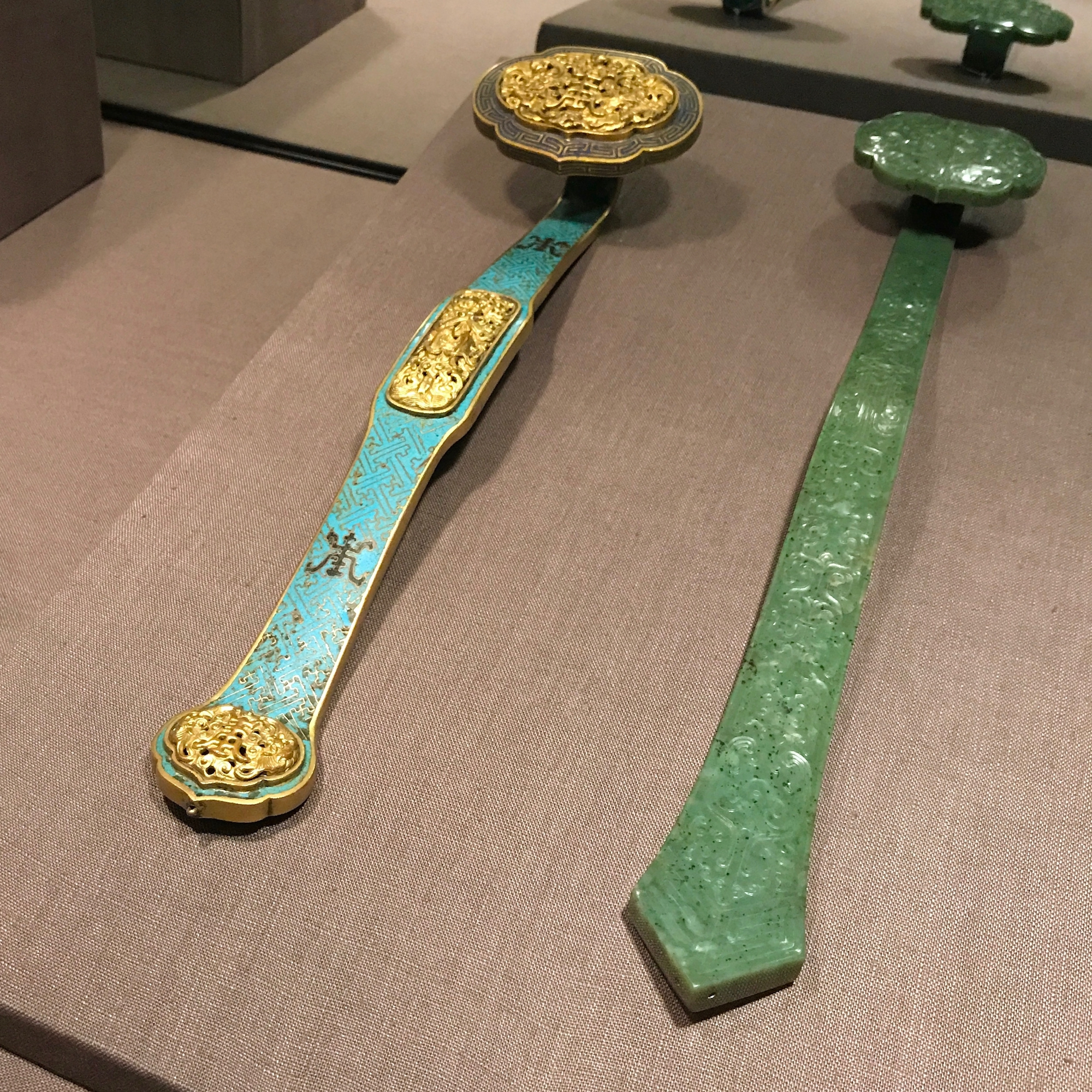 Pair of ruyi scepters. Left: China, 18th century, Qianlong period, 1736–1795, Qing dynasty. Cloisonné on brass. Decorated with brass inlays incorporating the seal-script character for longevity, together with auspicious images of fish and bats—homophones for the Chinese characters for abundance (yu) and happiness (fu) respectively—this scepter would have been an ideal gift for a birthday or New Year celebration. Bequest of Miss Mary Lewis, 1909-37. Right: China, 19th century, Qing dynasty. Jade (nephrite) with incised decoration. Incised on the back of this scepter's handle is a poem composed by the Qianlong emperor (ruled 1736–95) that highlights his appreciation for objects such as this, which he considered indispensable for a learned gentleman. Gift of Mrs. George S. G. Cavendish, 1961-225-1.